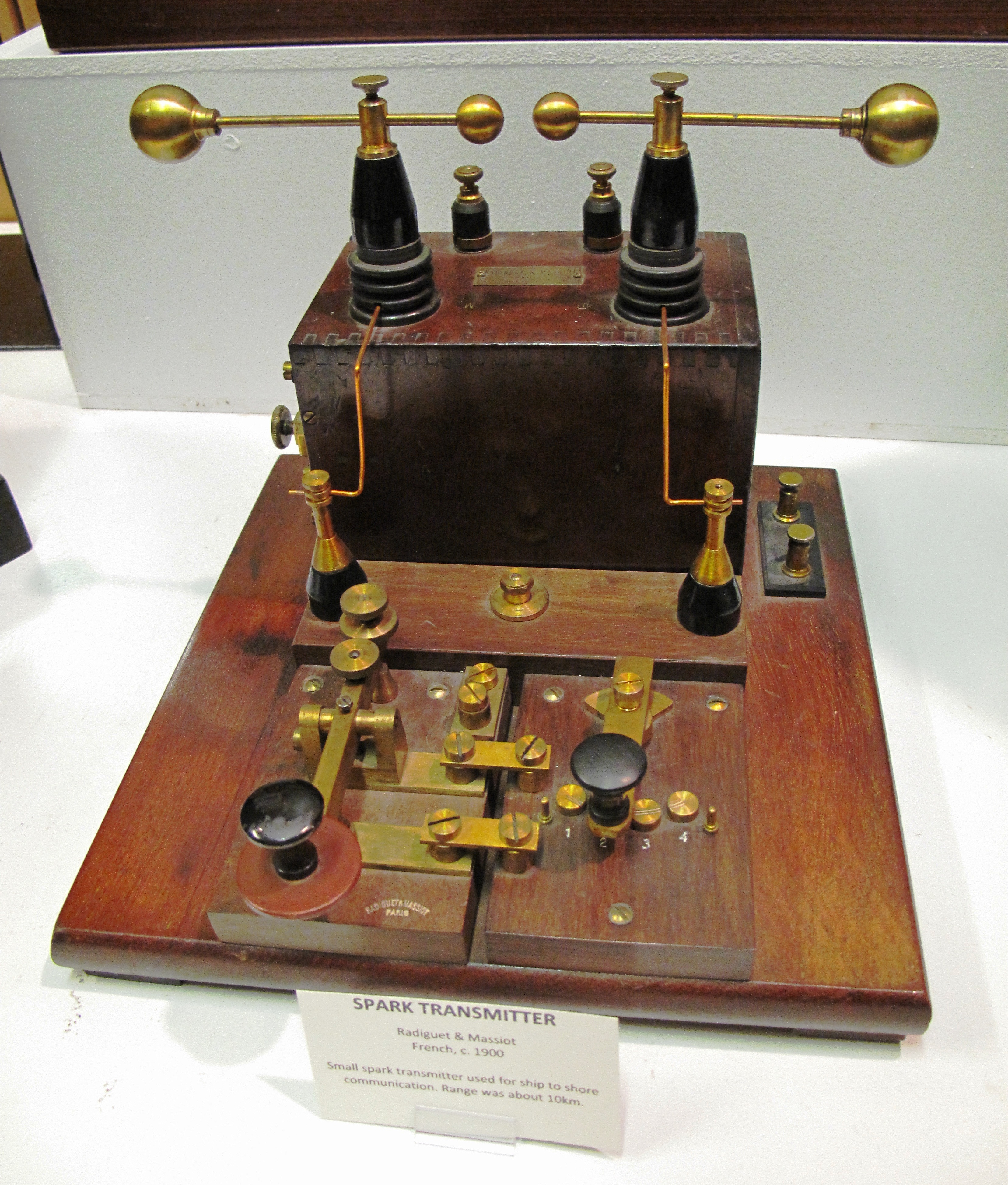 Antique spark gap radio transmitter in American Museum of Radio & Electricity in Bellingham, Washington, USA. Spark gap transmitters the first type of radio transmitter, were used during the first 3 decades of radio from 1887 to 1917. The placard reads: "Spark-gap transmitter. Radiguet & Massiot, French c. 1900. Small spark transmitter used for ship to shore communication. Range was about 10 km." It consists of an induction coil (box in back), powered by a battery (not shown), which generates pulses of high voltage electricity which are applied to a spark gap between the two brass balls on the brass arms (top). One side of the spark gap is attached to a wire antenna suspended from the ship's mast. The other is attached to a ground connection, which in a ship was usually a wire or plate dipping in the water. Each spark between the balls excited a brief radio frequency sinusoidal oscillating current in the antenna, which declined rapidly to zero, called a damped wave The energy in the oscillating current was radiated from the antenna into space as radio waves. The antenna acted as a resonator, so the wavelength and therefore frequency of the radio waves produced was determined by the length of the antenna. The antenna functioned as a quarter wavelength monopole, so the wavelength of the radio waves was 4 times the length of the antenna. The vibrating interrupter contact on the induction coil generated about 20 to 50 high voltage pulses per second, so the output of the transmitter was a repetitive string of damped waves, repeating at an audio rate, so the signal sounded like a buzz or whine in the receiver earphones. To communicate information with this signal, the operator turned the power to the transmitter on and off rapidly with the telegraph key (right foreground), a switch in the coil's primary circuit, producing different length pulses of radio waves to spell out text messages by telegraphy in Morse code.